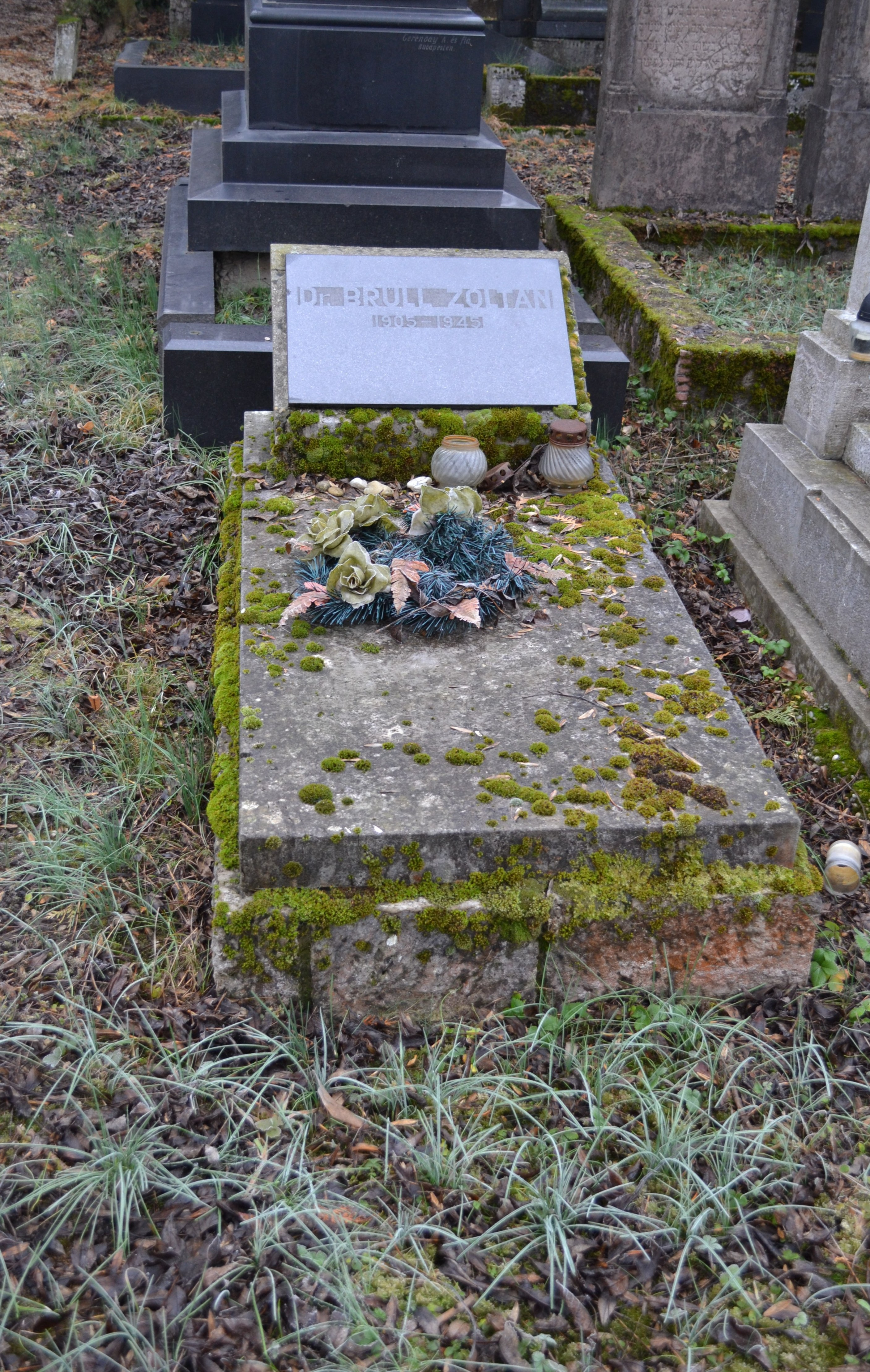 Zoltán Brüll, Slovak climber, mountain guide and doctor (1905 - 1945)